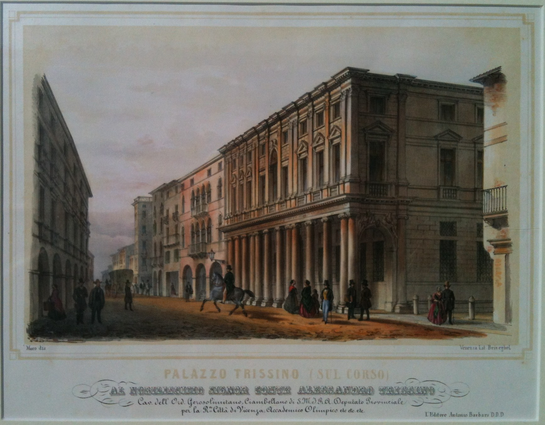 Palazzo Trissino (Vicenza) - lithography - Marco Moro 1847